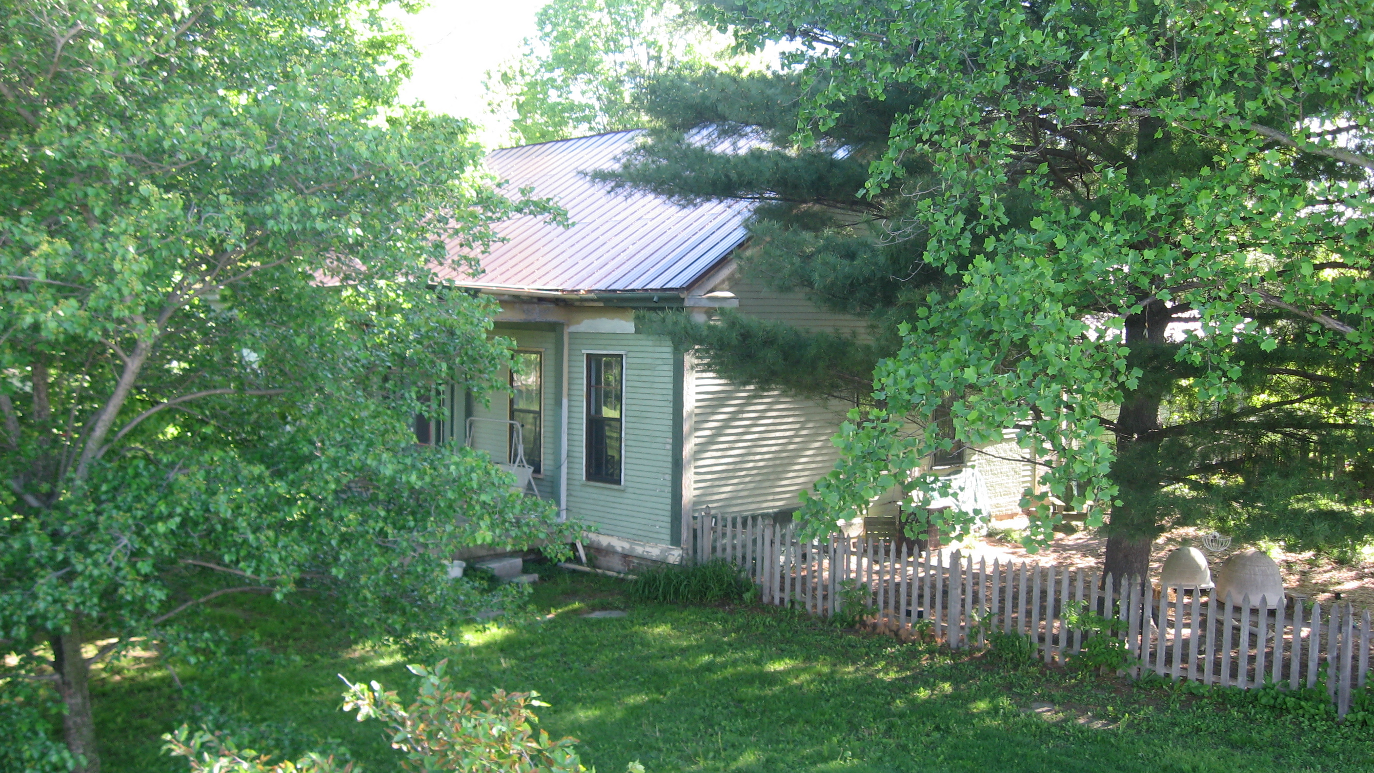 Front and southern side of the Wilson-Courtney House, located at 10 Cartersburg Road on the southern edge of Danville, Indiana, United States. Built in 1848, it is listed on the National Register of Historic Places.